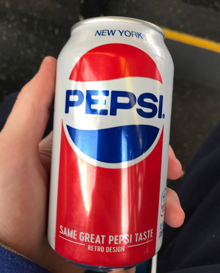 A Retro logo for the Pepsi promotion